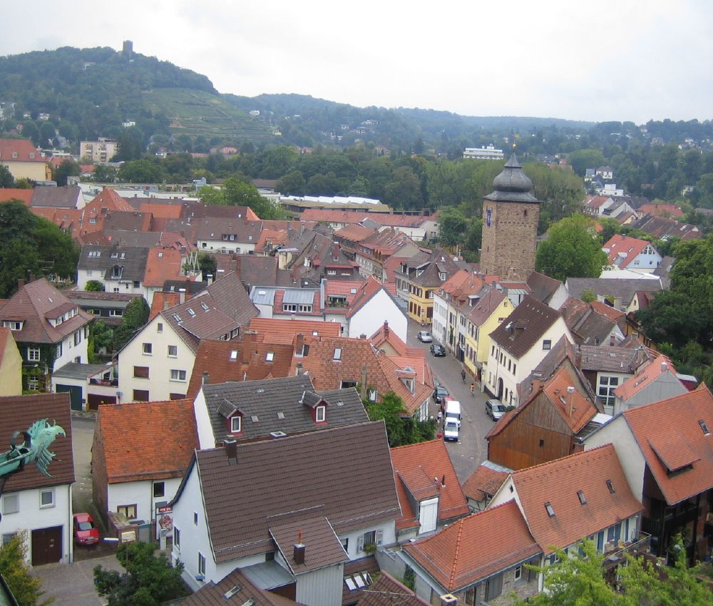 View from the tower of the catholic church over the street surrounding the downtown part of Durlach. The historic Basler Tor city gate is to the right and in the background, Mt. Turmberg is visible.